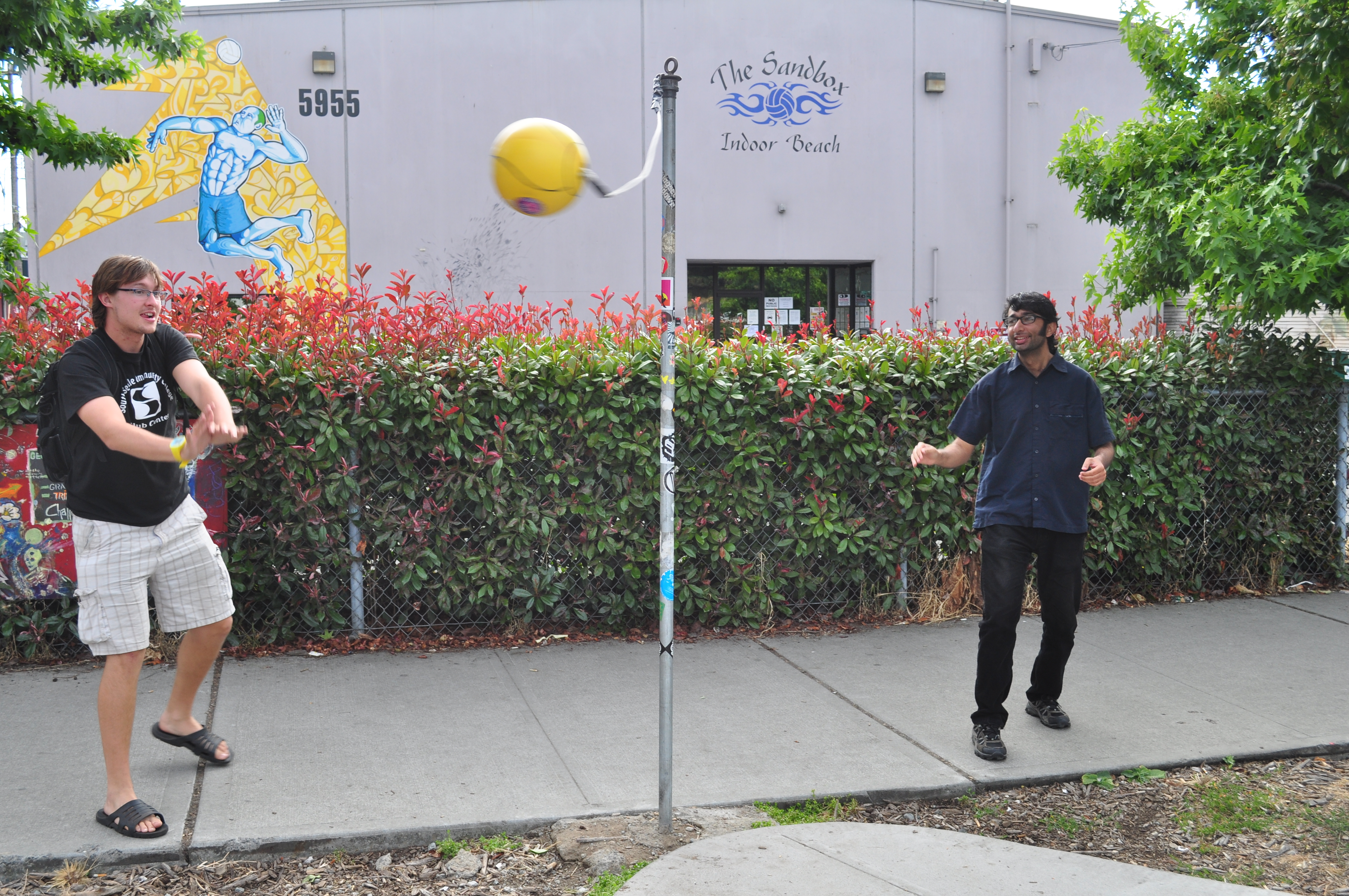 Playing tetherball on a streetcorner in Georgetown, Seattle, Washington.